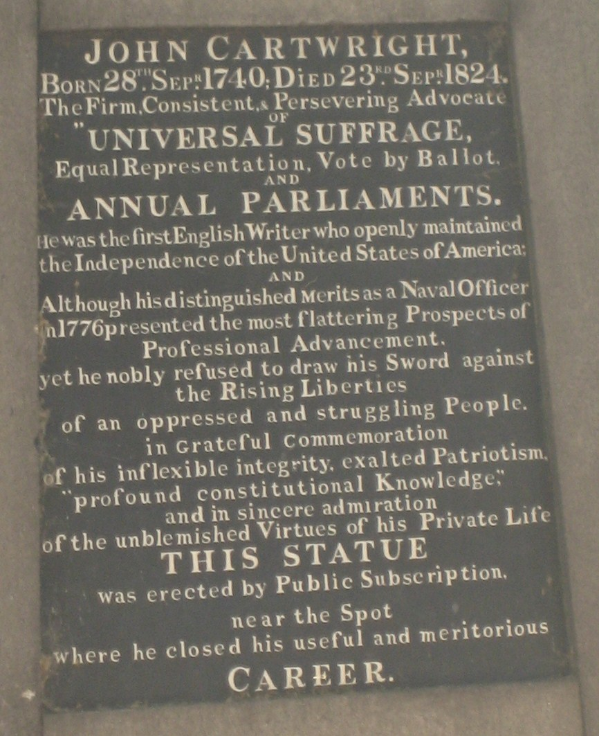 John Cartwright (political reformer) - Cartwright Gardens statue's inscription